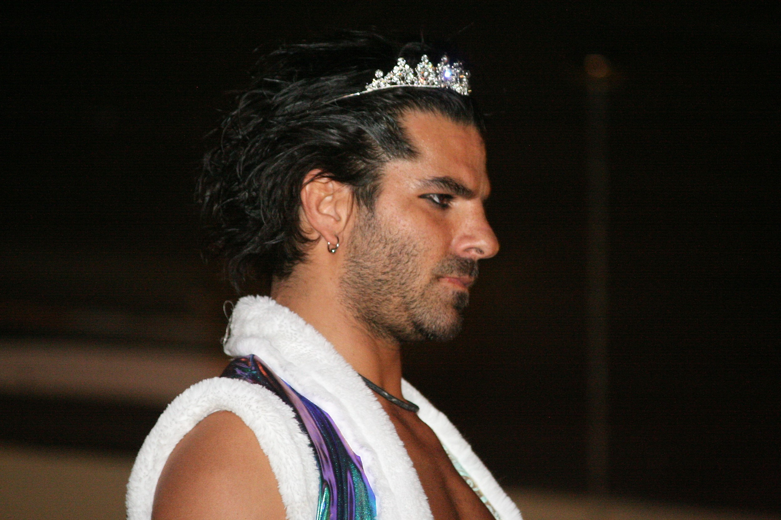 Jimmy Jacobs prior to a match for AWE in December 2017.